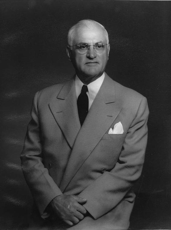 Photograph, Leo Dandurand, Montreal, QC, 1949, Wm. Notman & Son, Silver salts on film - Gelatin silver process - 17 x 12 cm